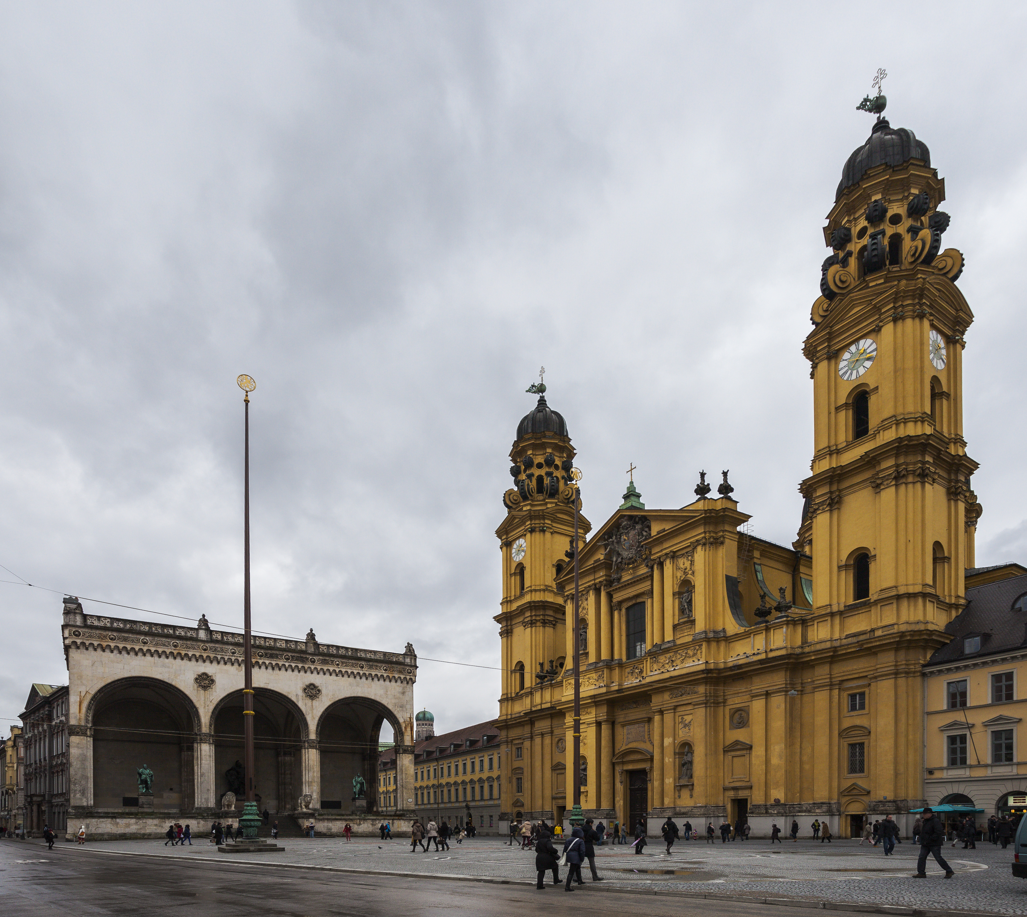 Odeonsplatz, Munich, Germany